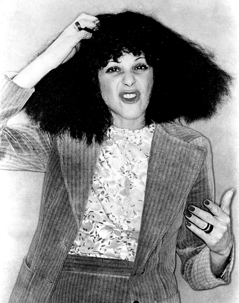 Publicity photo for Gilda Radner -Live from New York Broadway show